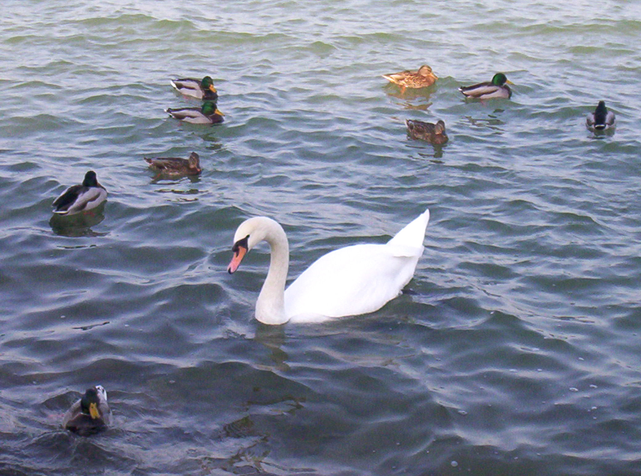 Balaton at Siófok – photo taken by uploader User:Csanády in 2006.